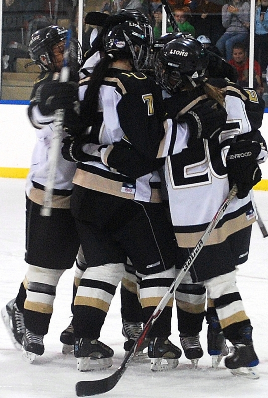 Lindenwood University Women's ice hockey team celebrates a goal in a game on October 16, 2010 against Robert Morris University-Chicago.